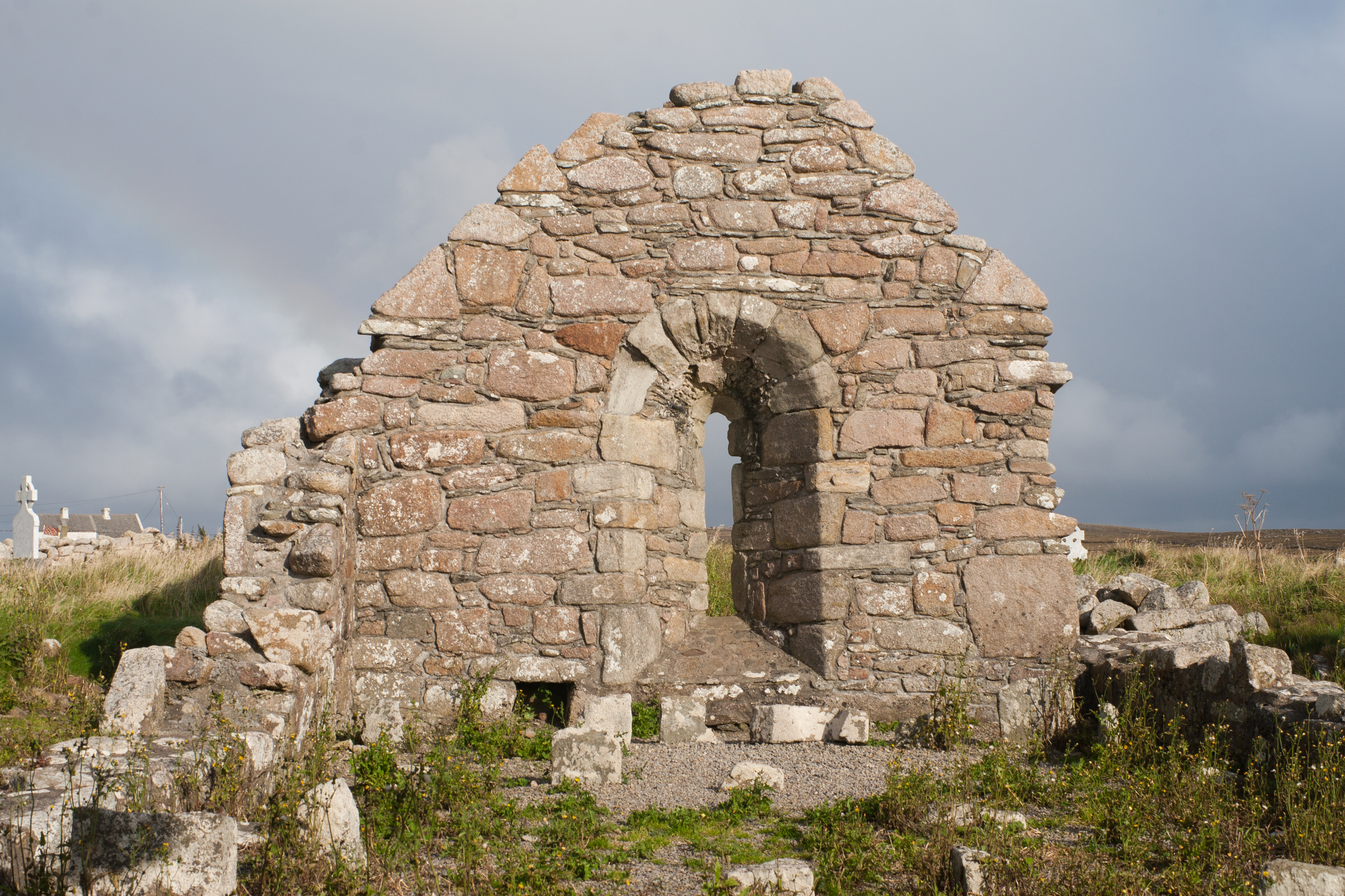 East gable and east window of Teampall Deirbhile.